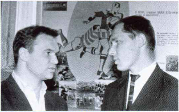 Mr. Petrenchuk and Mr. Annenkov are organaizers of MAI rugby team.